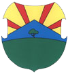 Coat of arms of the former Municipality of Bač, Macedonia.